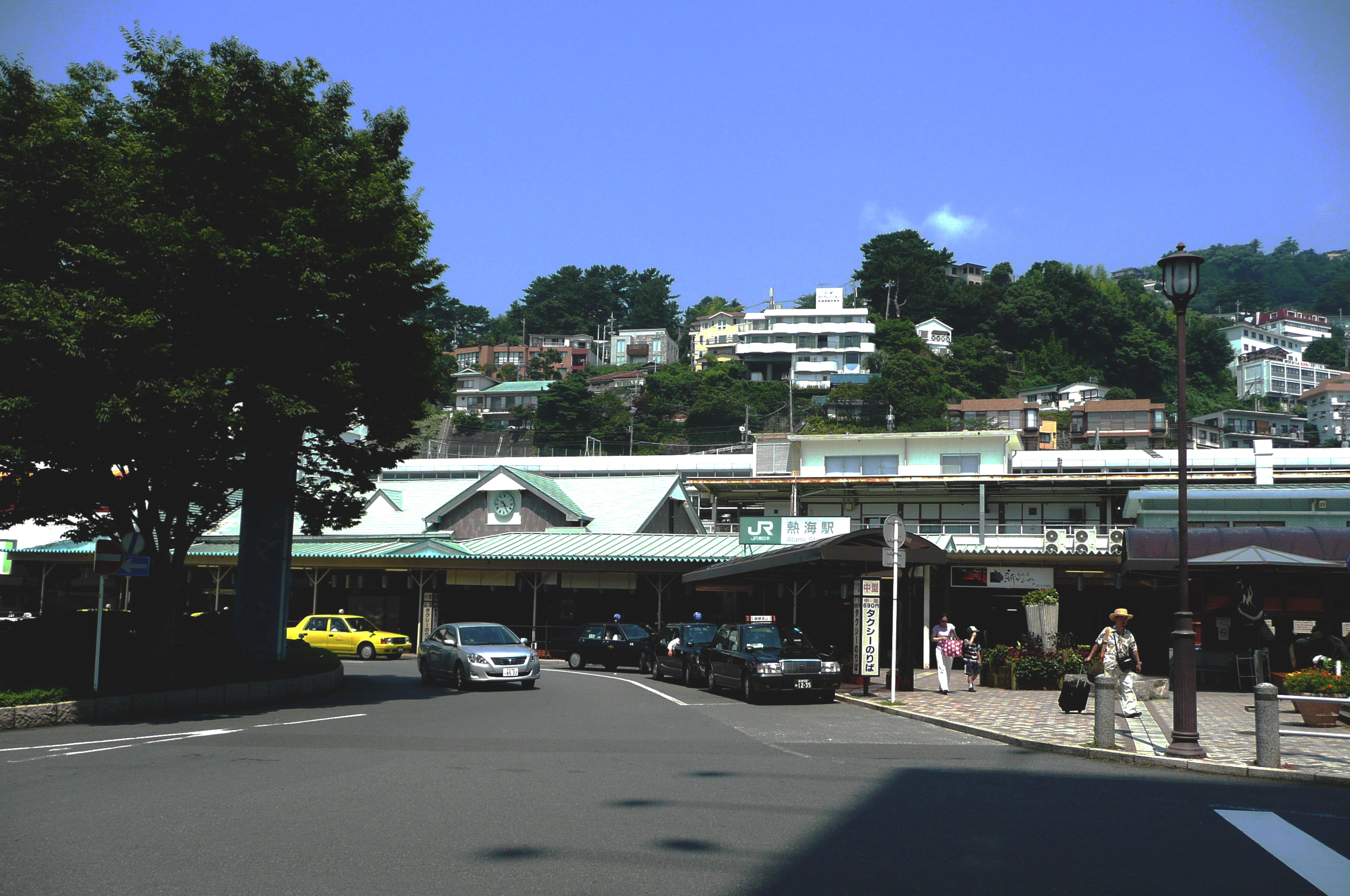 Atami Station